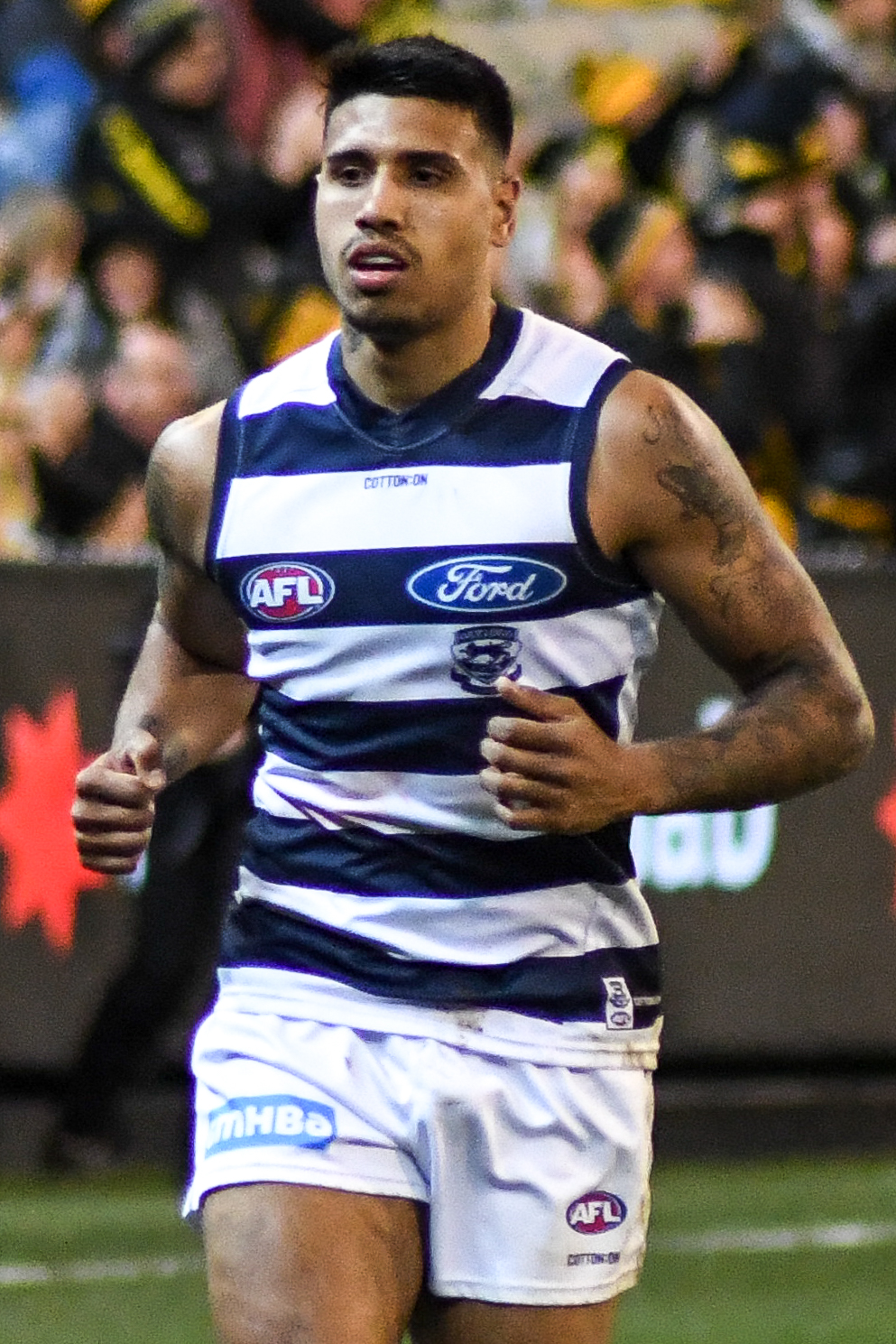 Tim Kelly of Geelong during the 2018 AFL round 20 match between Richmond and Geelong at the Melbourne Cricket Ground on Friday, 3 August 2018 in Melbourne, Victoria.